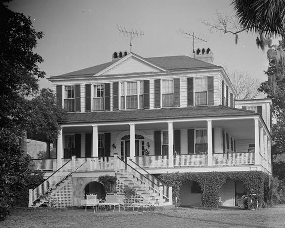 James Robert Verdier House - Marshlands (Beaufort, South Carolina).(cropped)